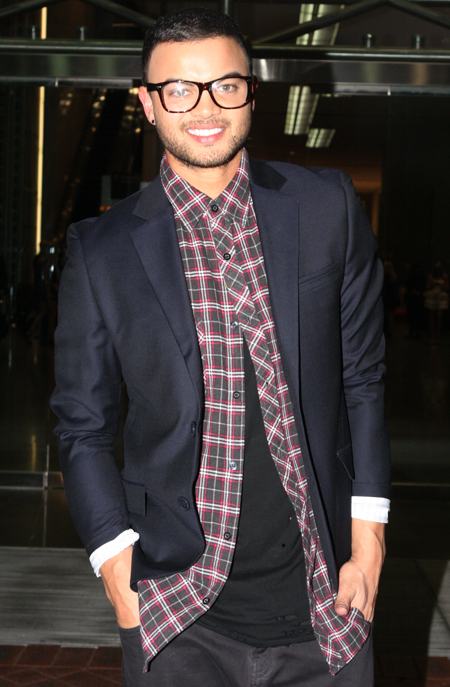 Guy Sebastian at the Australian Commercial Radio Awards 2012.